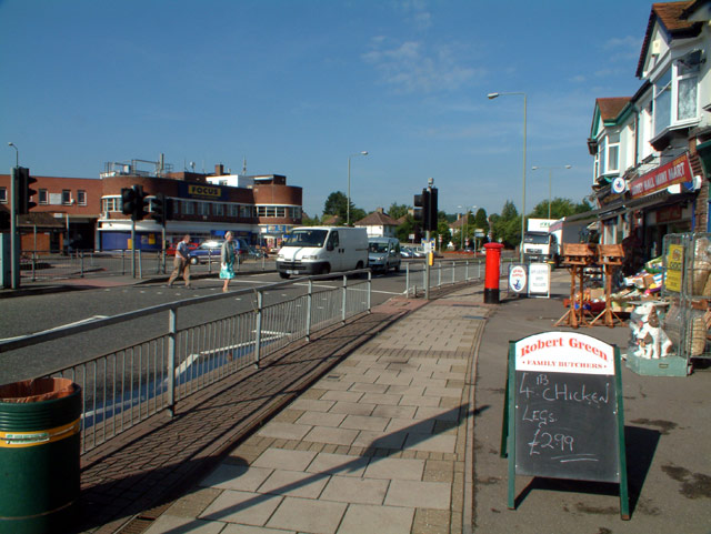 Coney Hall BR4 Junction of Glebe Way - a dual carriageway at this point - with Kingsway, looking west. The DIY store, now Focus, was previously DoItAll, and before that, a cinema.